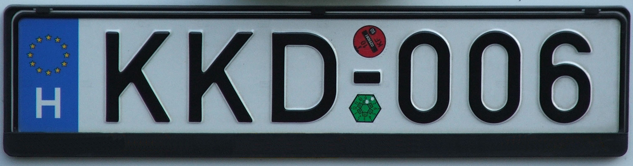 Registration plate of Hungary